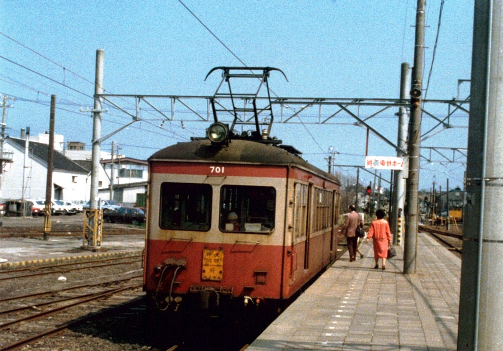 Choshi Electric Railway 700 series EMU car DeHa 701 at Choshi Station